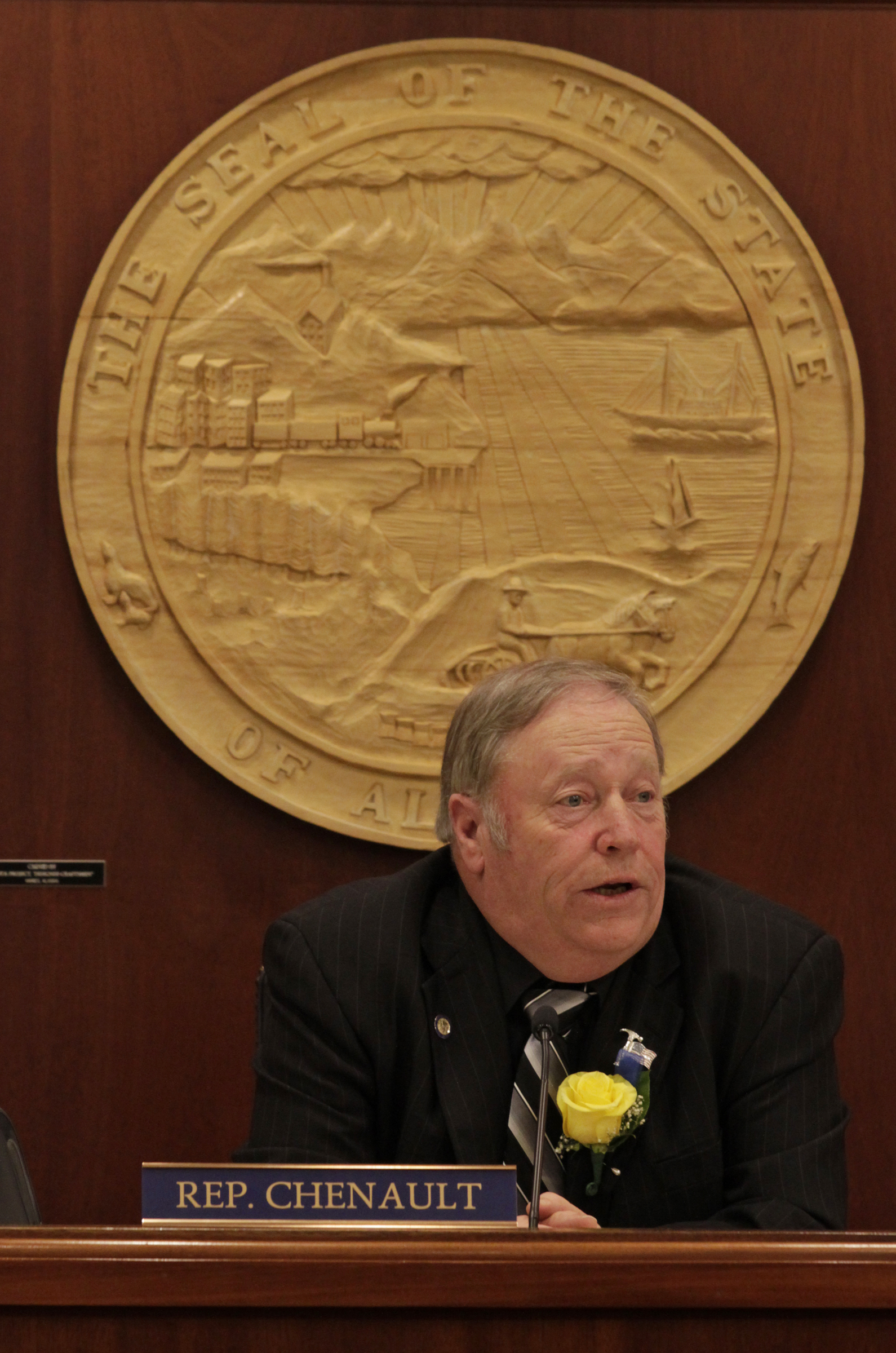 Rep. Mike Chenault, R-Nikiski and the new Speaker of the House, speaks after taking his seat for the first time in the 29th Alaska Legislature. Tuesday was the start of the Legislature. (James Brooks photo)